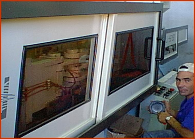 Injection plastic parts (Google translation of Portuguese description)